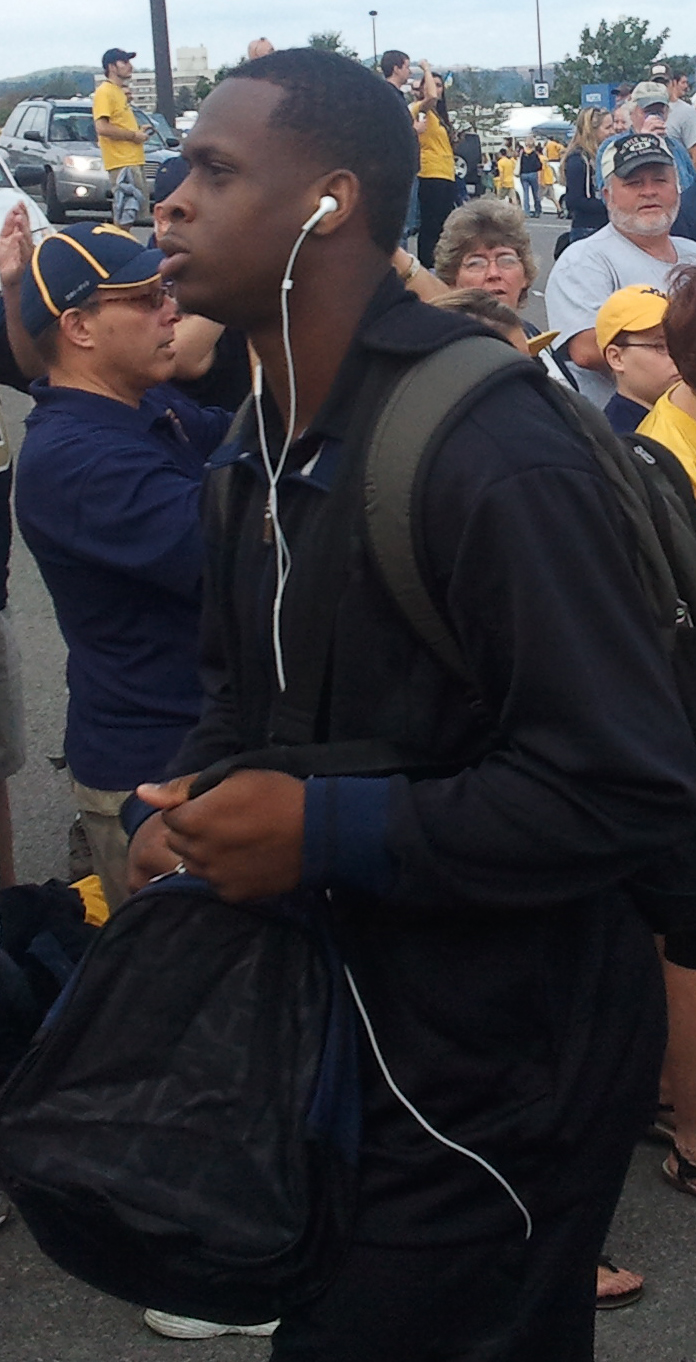 Geno Smith walking towards Mountaineer Field at Milan Puskar Stadium